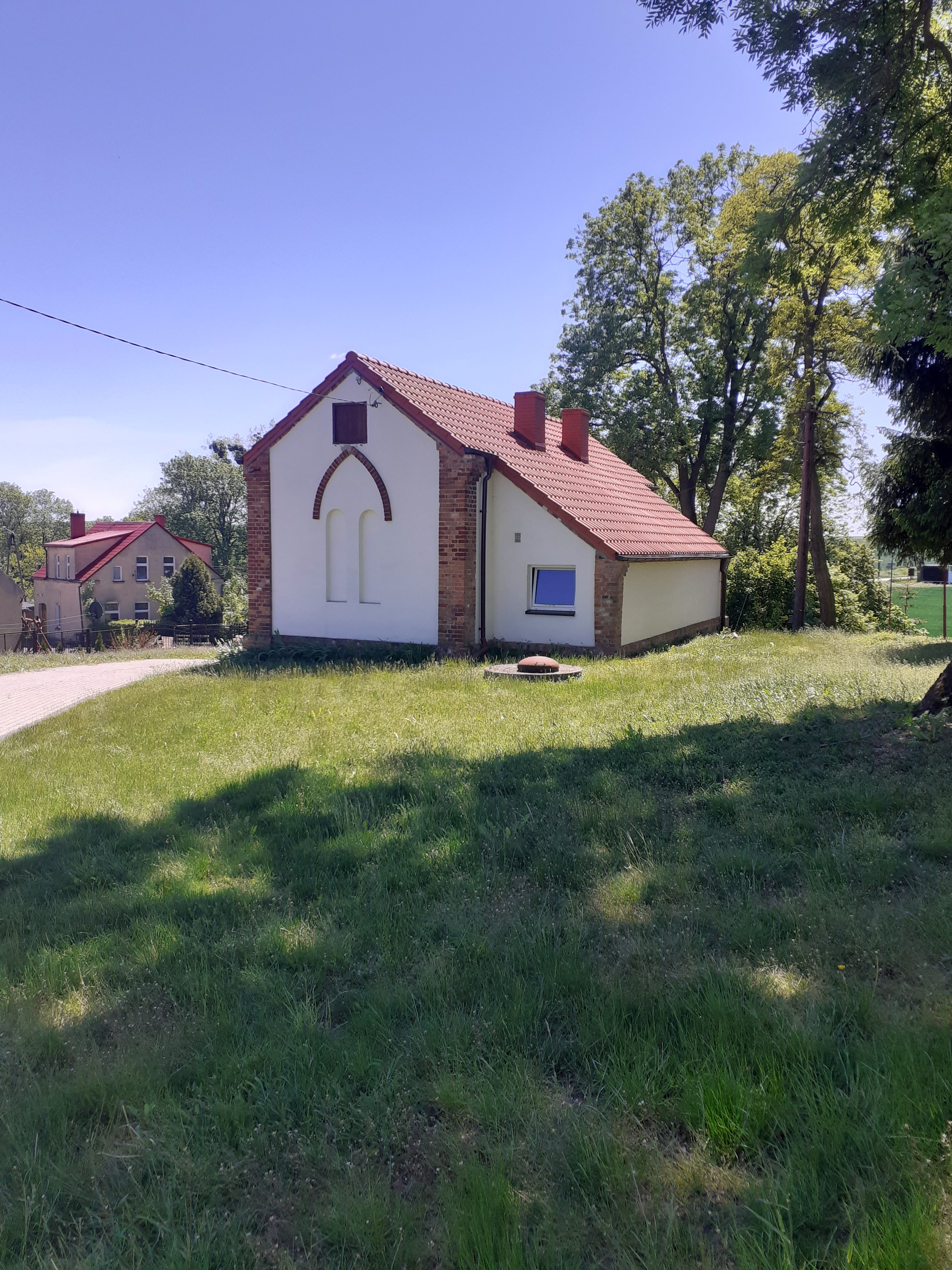 Zdjęcia zabytków w Wabczu